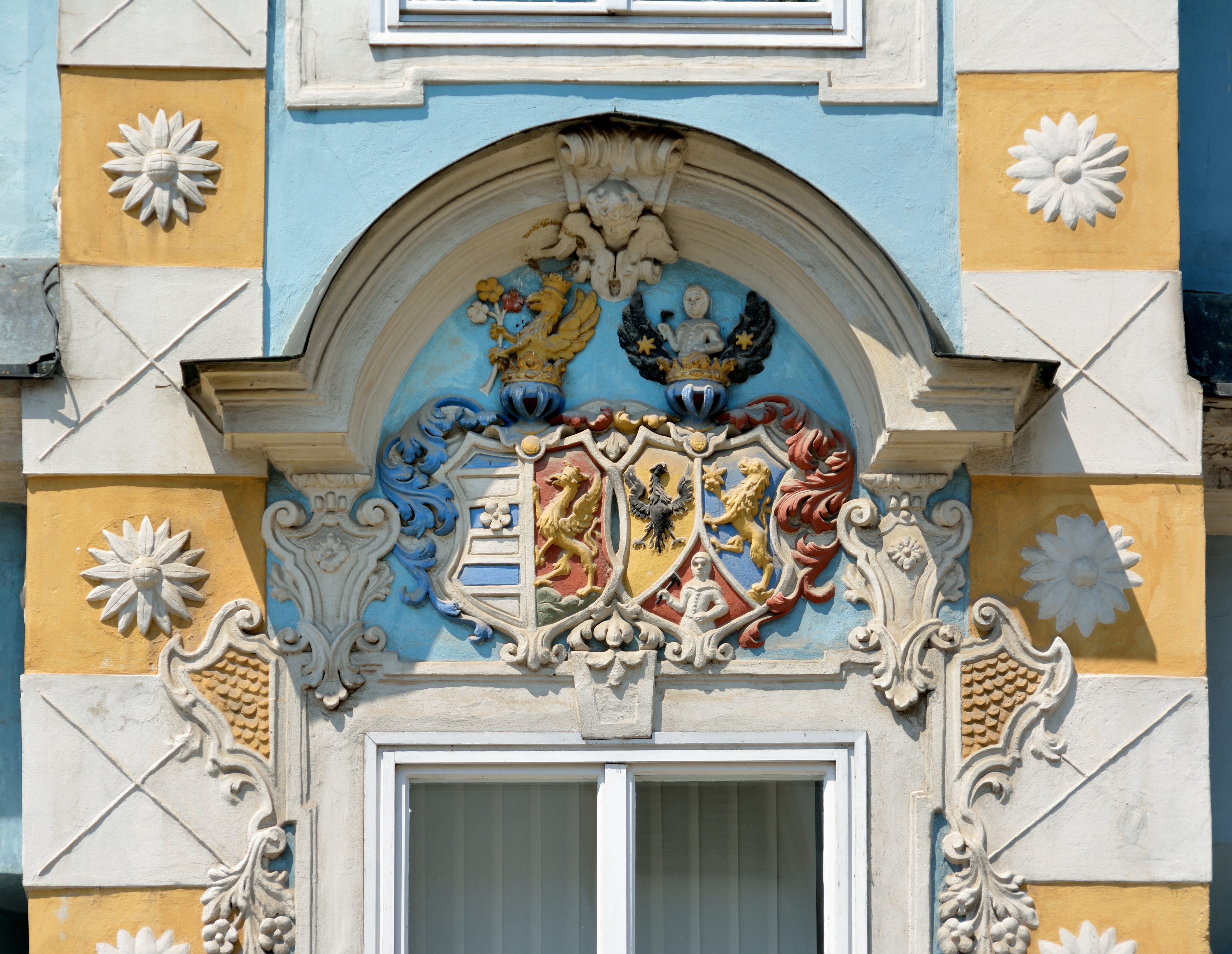 Sternhaus Stadtplatz 12, facade detail: CoA of the families Winterl and Schoiber von Engelstein , Steyr, Upper Austria